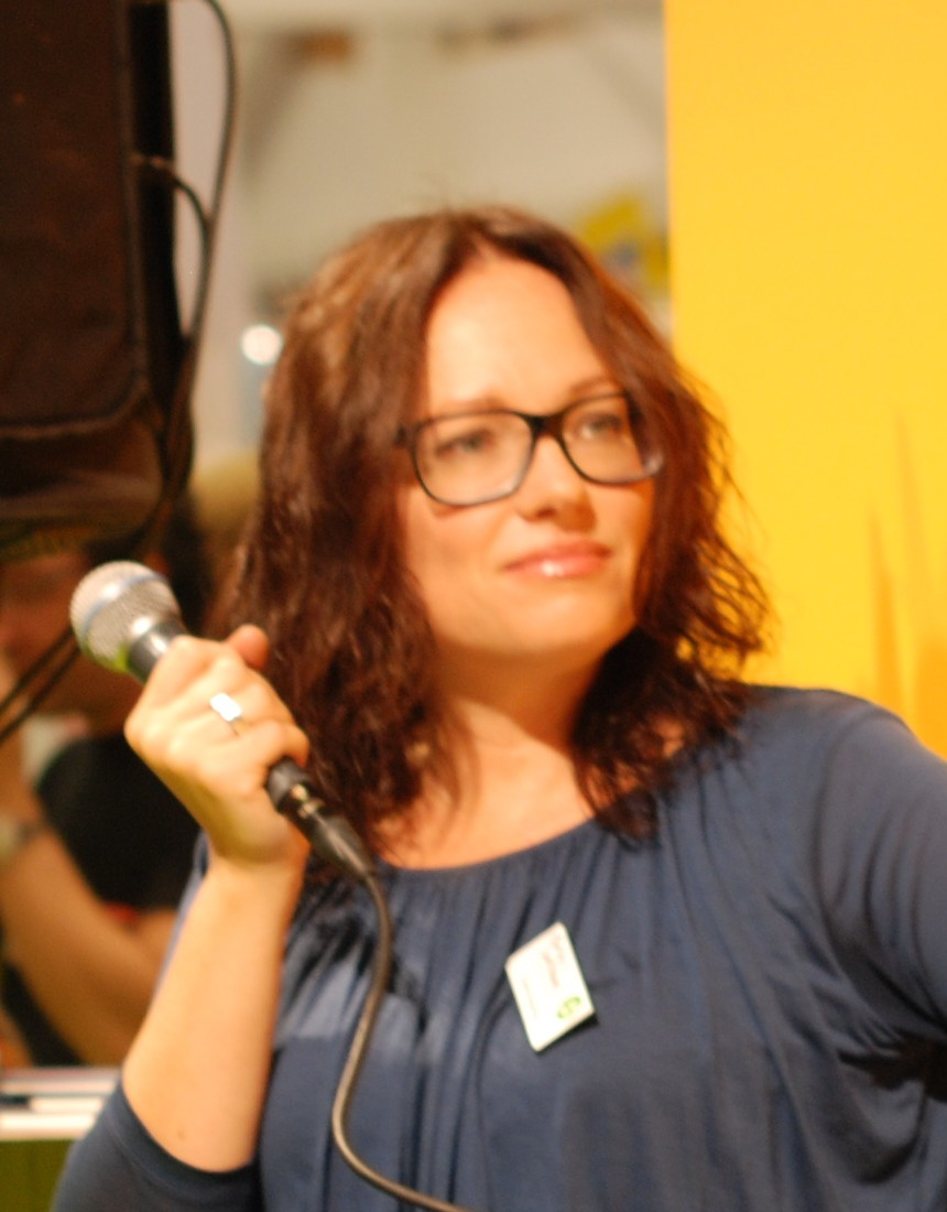 Swedish author Gunilla Bergensten at the Göteborg Book Fair 2010